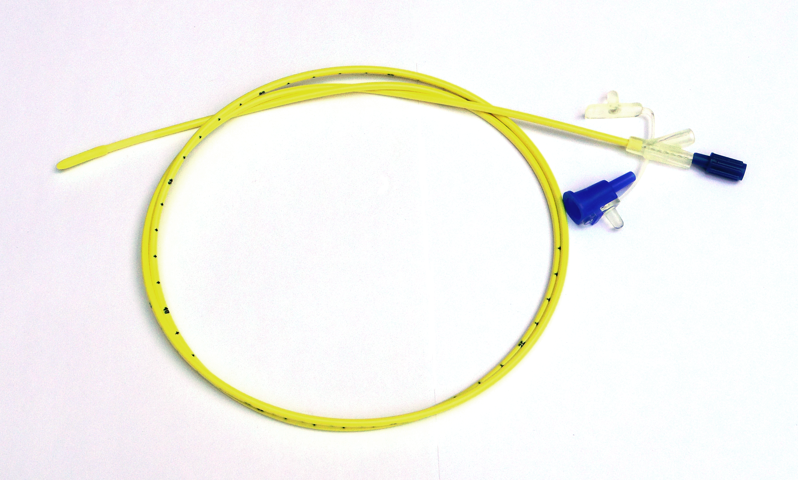 Corflo ultra lite enteral feeding tube, 8FR, length 43"/109cm, stylet, non-weighted. This image is a counterpart of Media:Enteral feeding tube.png which does not have the stylet exposed.